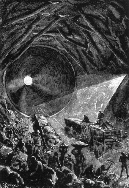 An illustration from Jules Verne's novel "The Purchase of the North Pole" drawn by George Roux.